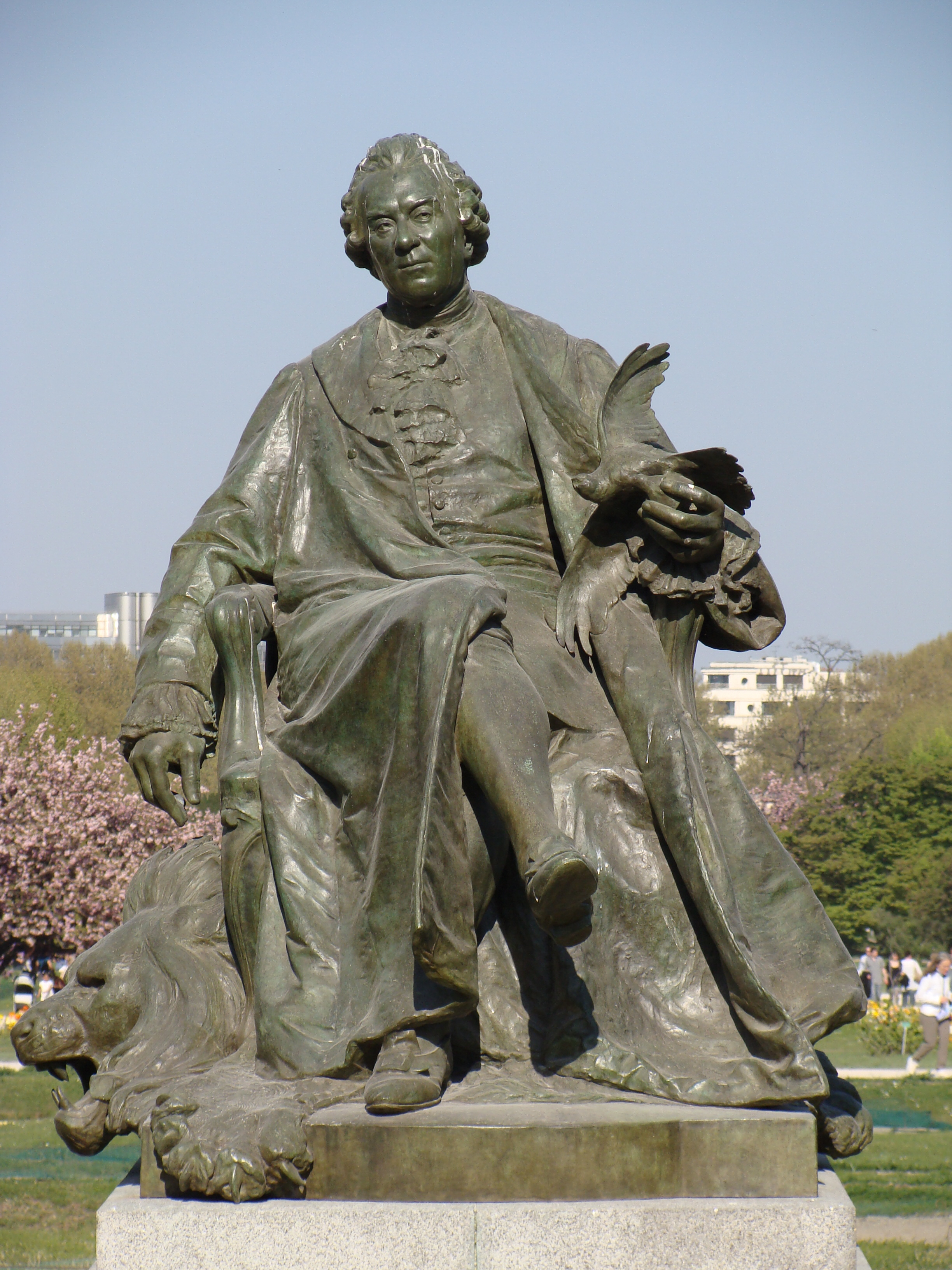 View of the recent restauration of the statue (1908) of G.L.Leclerc de Buffon, Jardin des Plantes, Paris. Sculptor Jean Carlus, 1852-1930.